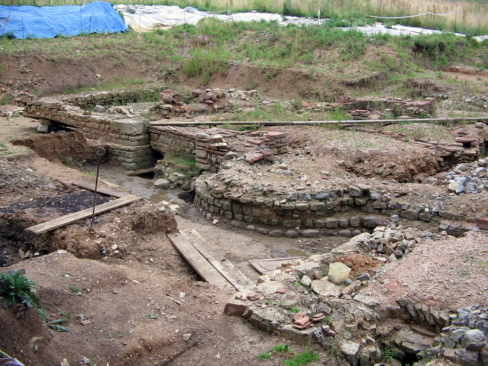 The remains of the bathouses being excavated at the site of the Roman settlement of Tripontium near Rugby.